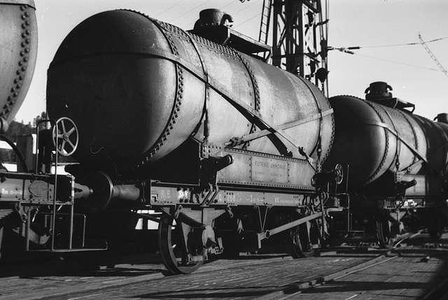 Railway wagons with ammonia on Rjukanbanen, Norway.